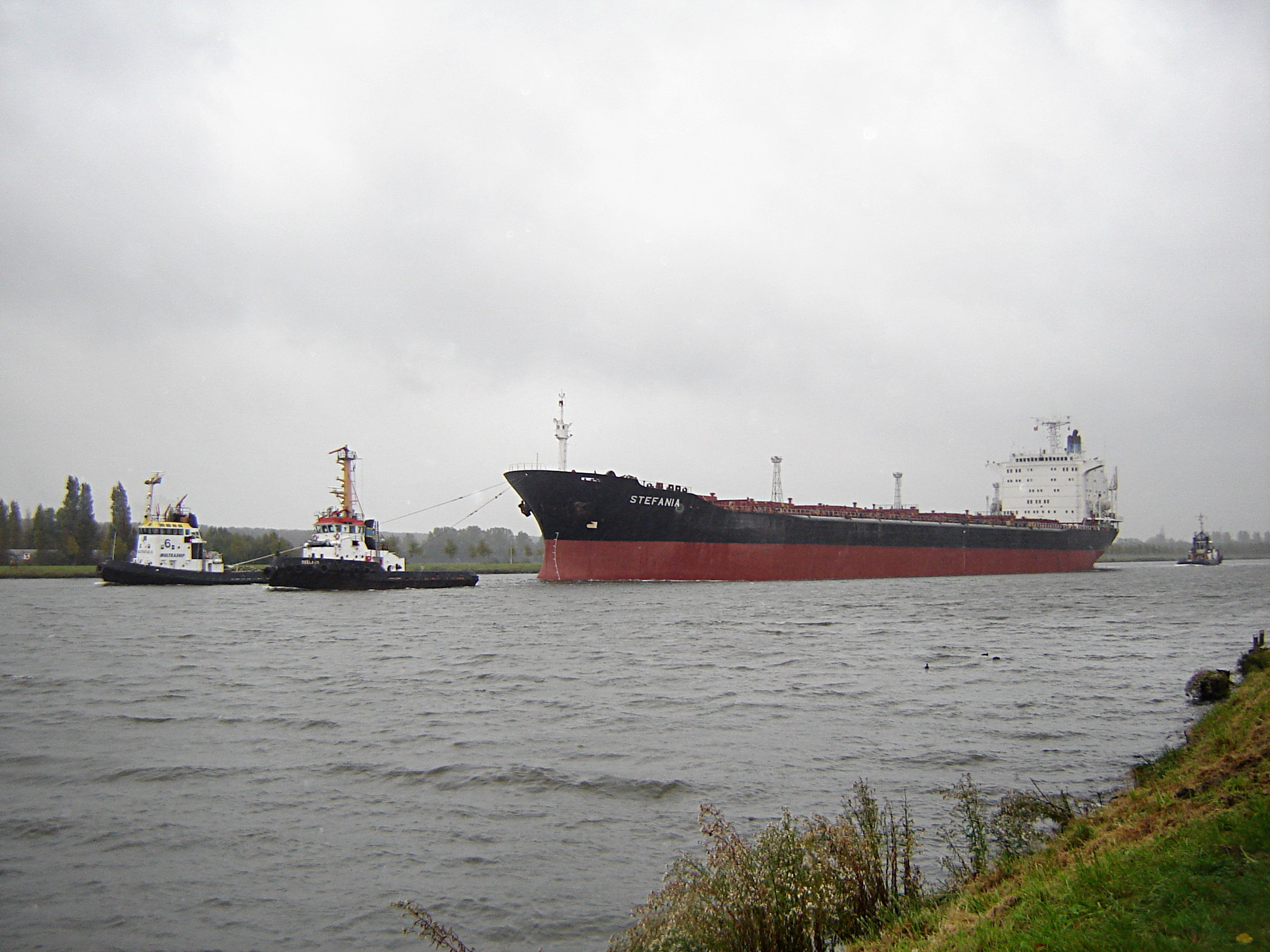 Ship with tugboats on the Gent-Terneuzen Canal, at Sas van Gent. Navigating from Gent to Terneuzen. Sas van Gent, Terneuzen, Zeeland, Netherlands